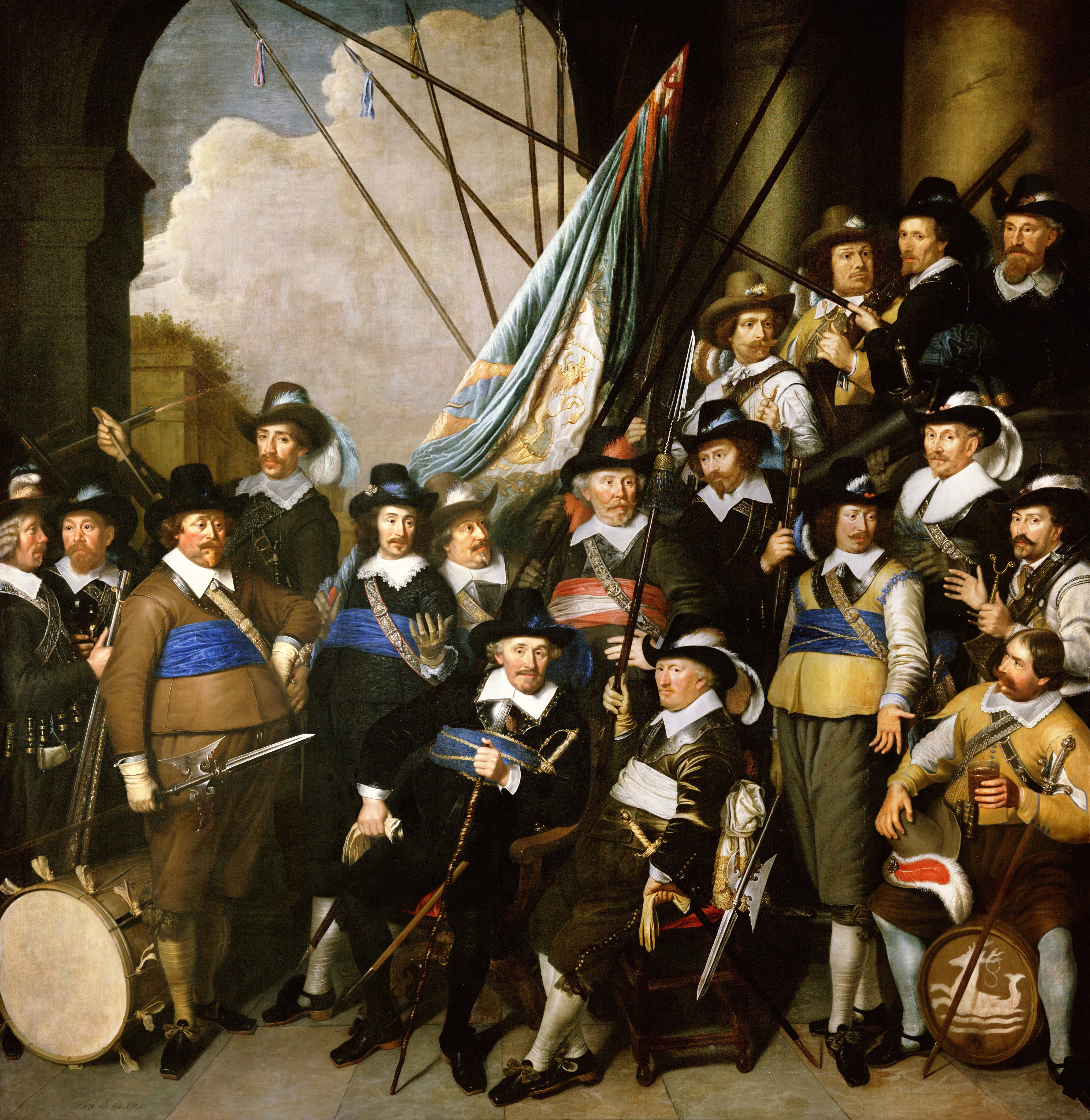 Group portrait of the Hoorn civic guard (schutterstuk) in 1649. Inscribed below left J.A.Rotius fecit Ao 1649. Men portrayed are: Coninck, Seyne Matemaker, Aryan Allertsz Neck, Pieter Willemsz van Coster, Claes Pietersz Visscher, Jacob Jansz (flag bearer) Bos, Gerrit Martsz Waerden, Cornelis Dirksz (sergeant) Broer, Jan Meynertsz Hoogen, Jan Wormboutsz van Steenhuys, Cornelis Reyertsz Beek, Isaac van der (corporal) Kinneman, Hendrik Jansz Meerhuyzen, Jan Dirksz Brasem, Willem Cornelisz Sijvertsz, Claas